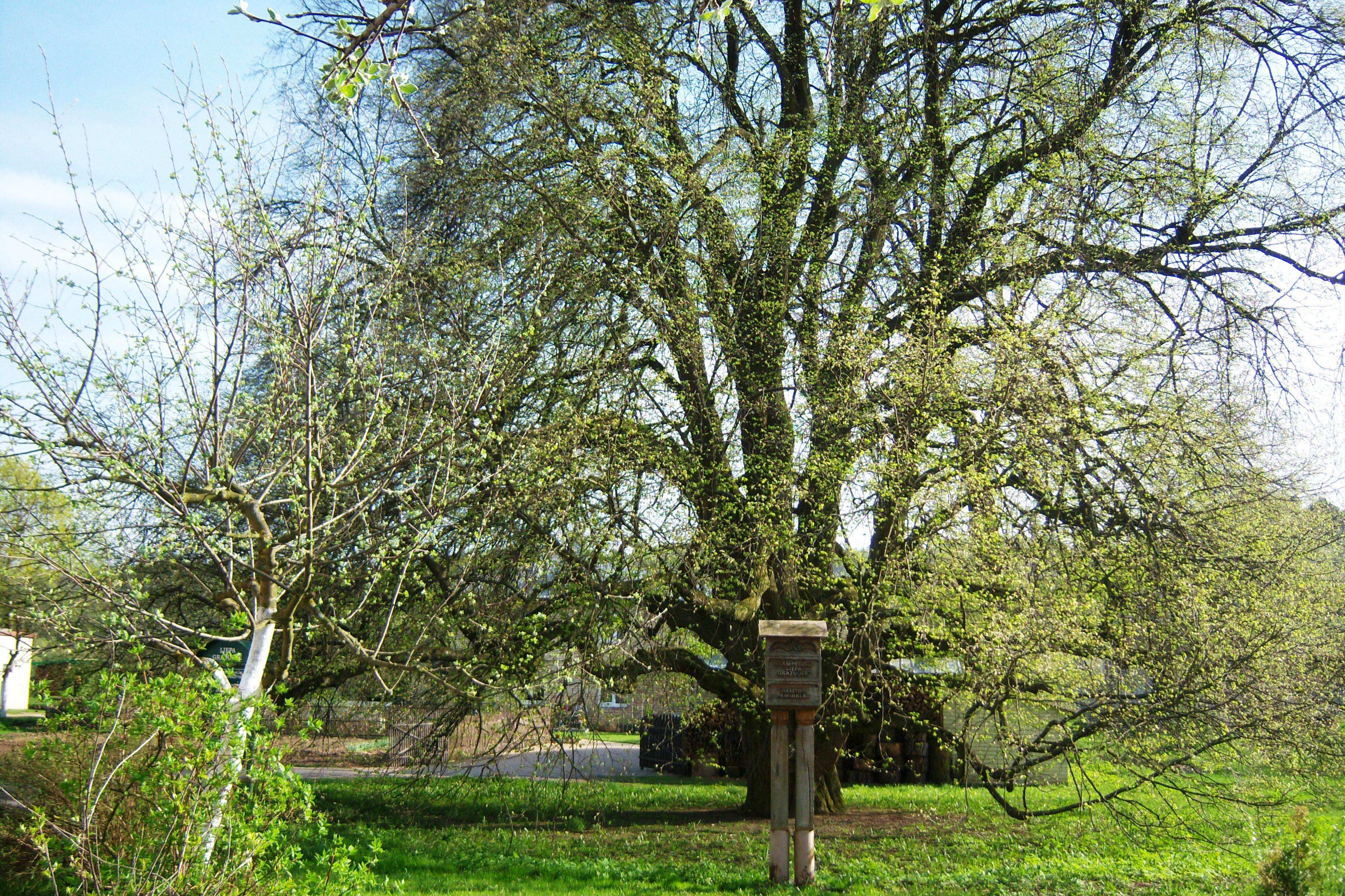 Small-leaved lime (tilia cordata) in Lampėdžiai, Kaunas, Lithuania